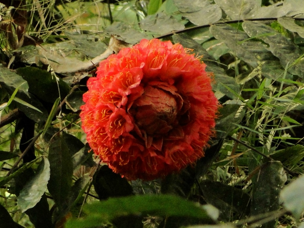 Brownea grandiceps (rose of Venezuela) flowerhead, Henri Pittier National Park.